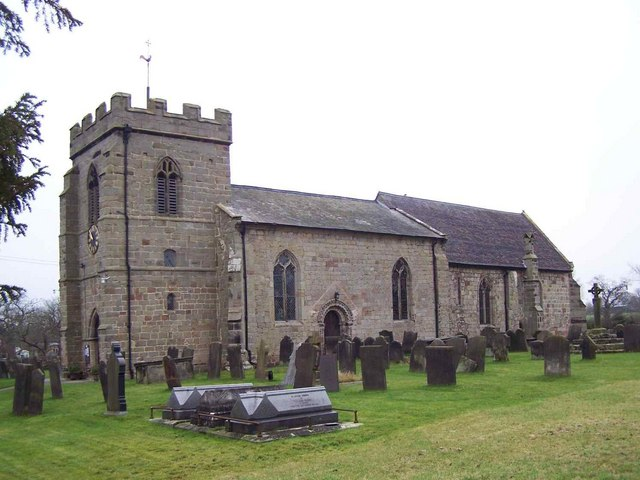 St. John The Baptist, Stowe By Chartley